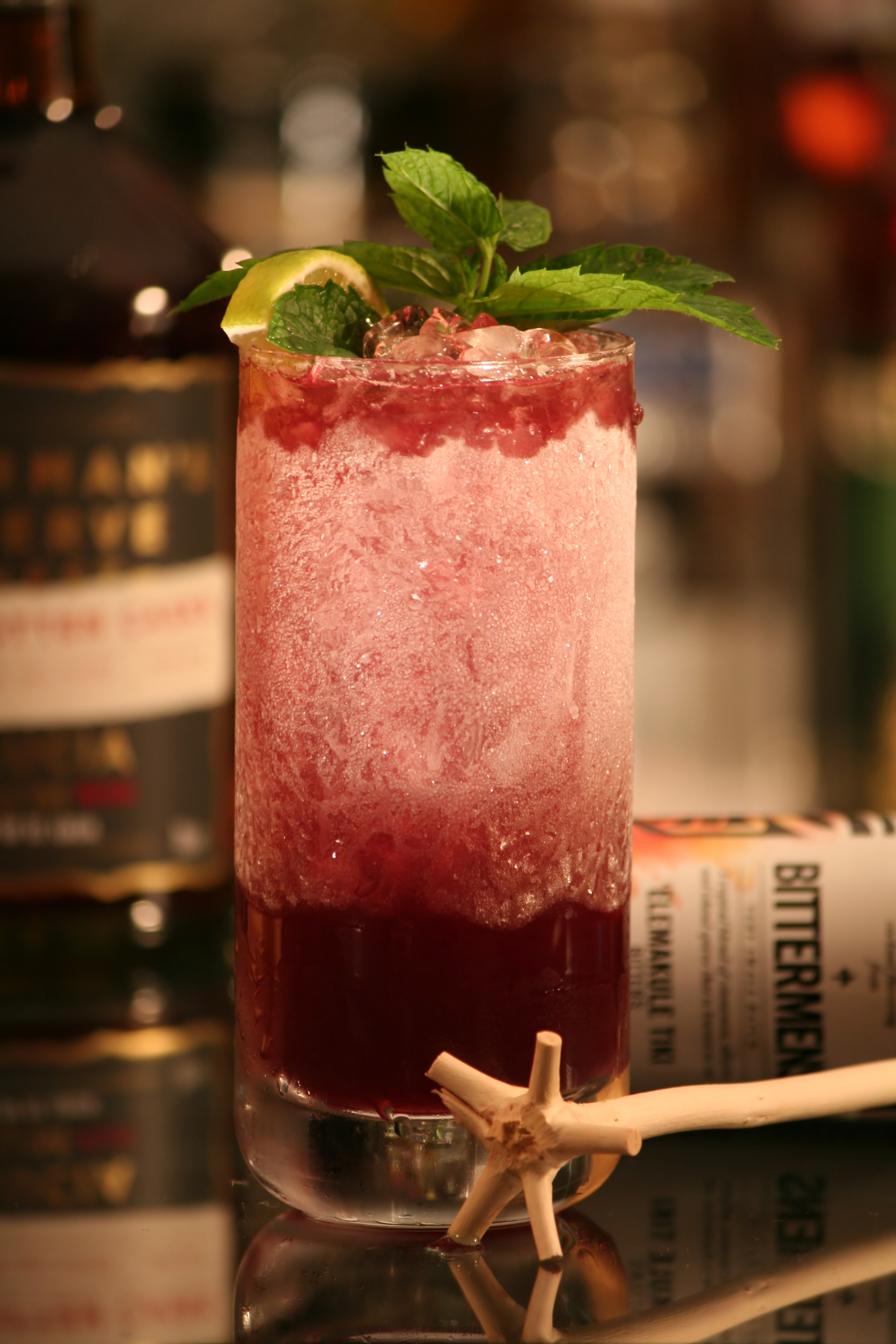 A typical swizzle in a glass with frosted surface. There is a swizzel stick in front of the cocktail.